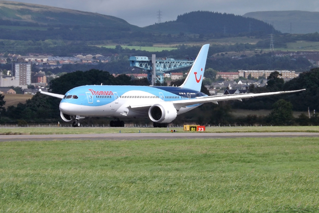 G-TUIB Boeing 787 Thomson